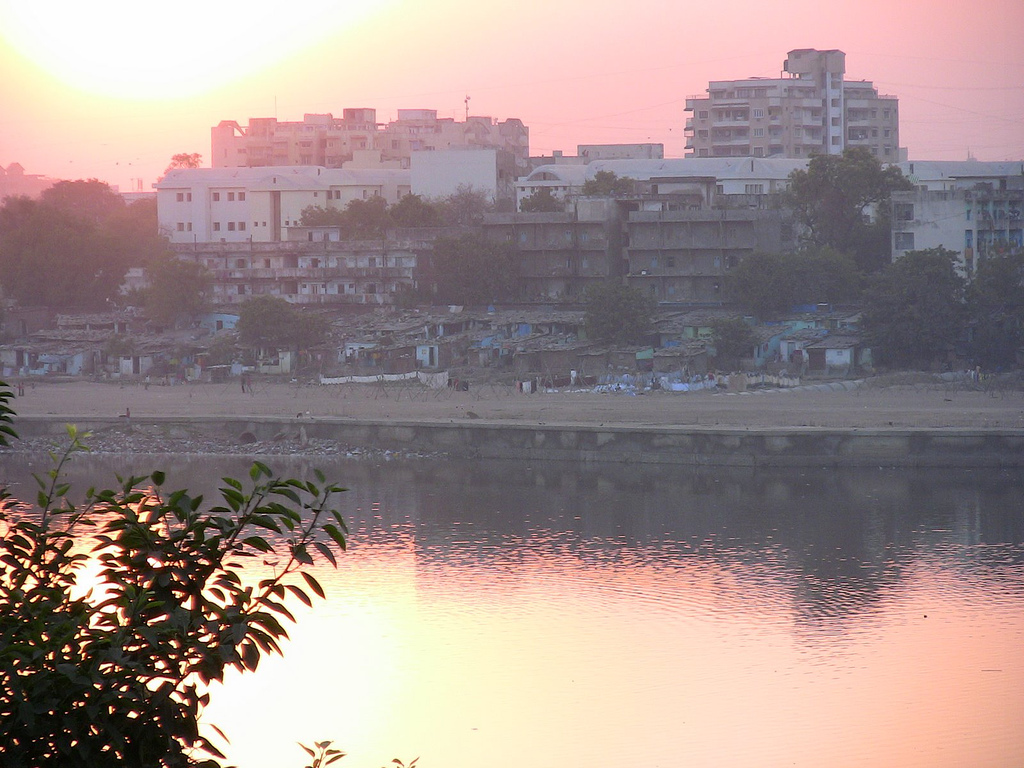 The view from Saru massi's flat at sunset. Across the Sabarmati river is supposed to be the richer, more developed side of Ahmedabad. But you can still see shanties by the shore.